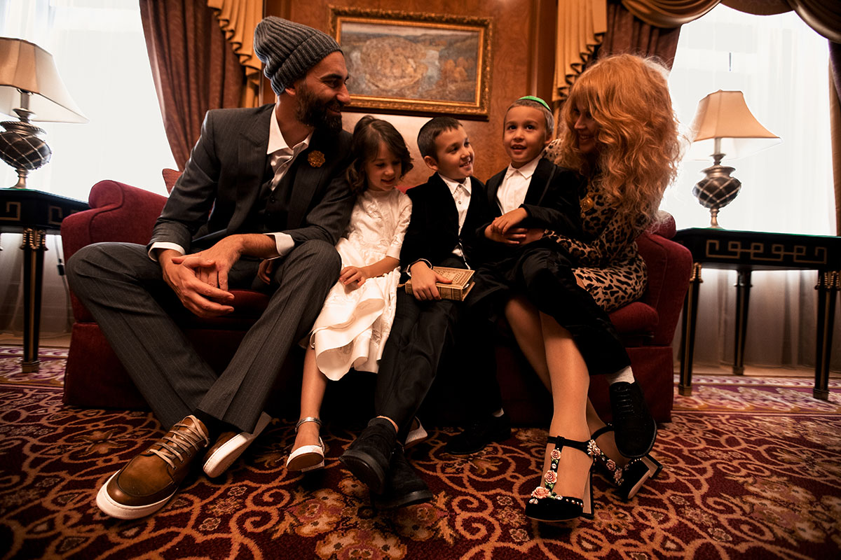 Yaroslav Maliy Family